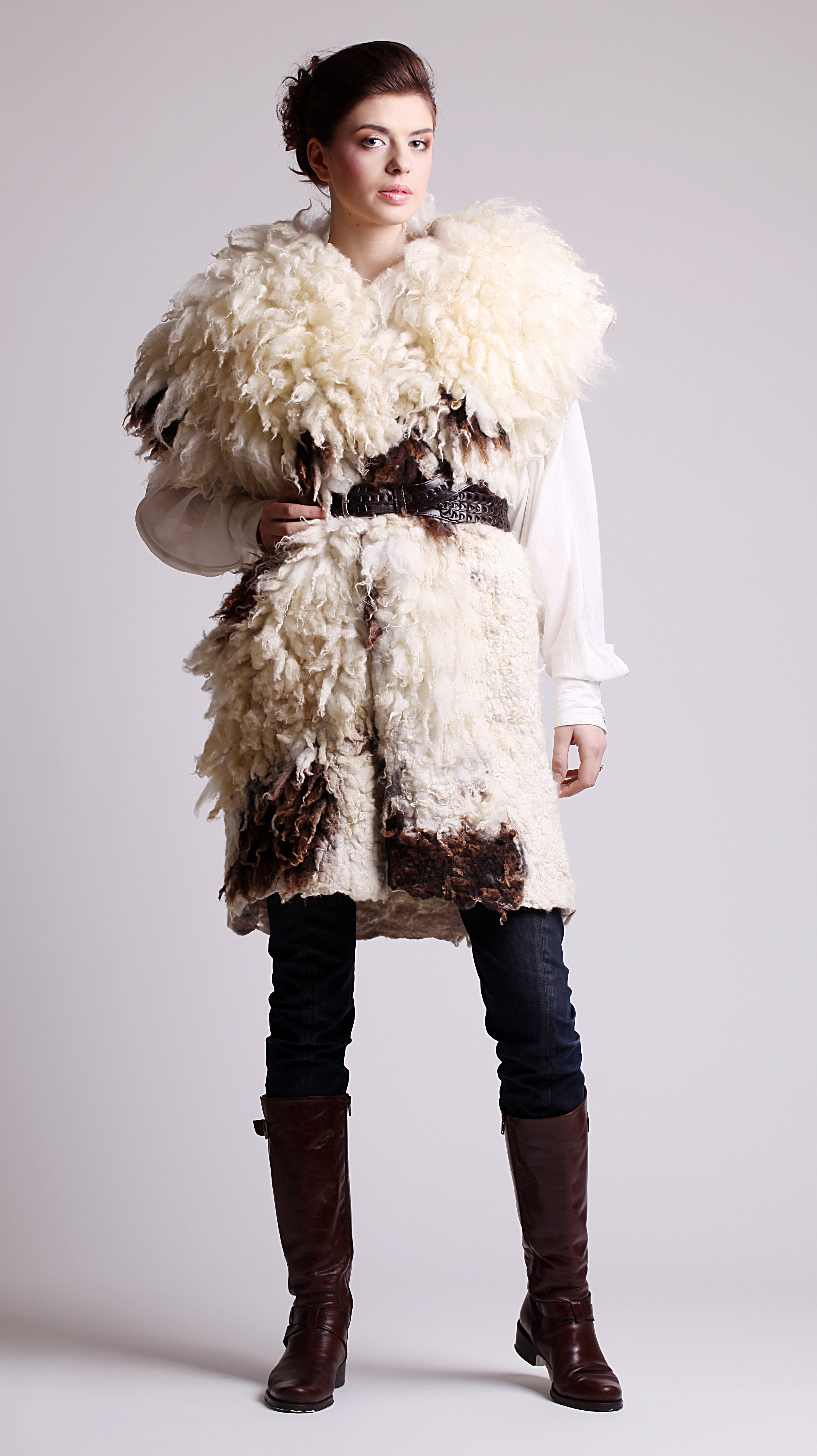 Luxurious nuno felted jacket by Eve Anders Fashion